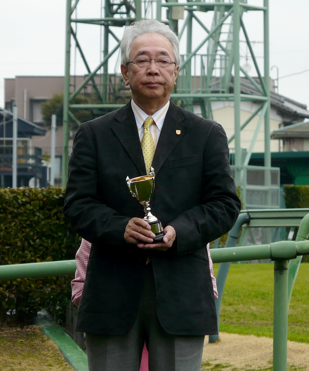 Mitsuhiro-Ogata20120324